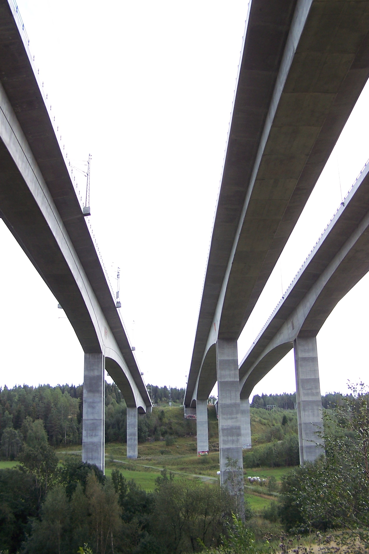 Hølendalen bruer, two highway and one railway bridge in Hølen, Akershus, Norway